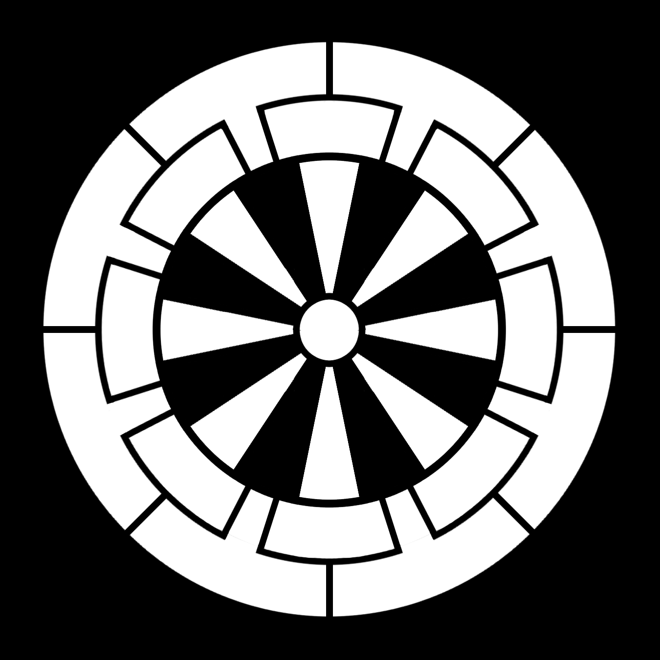 Japanese family crest "Genji-Guruma", a wheel (kuruma).